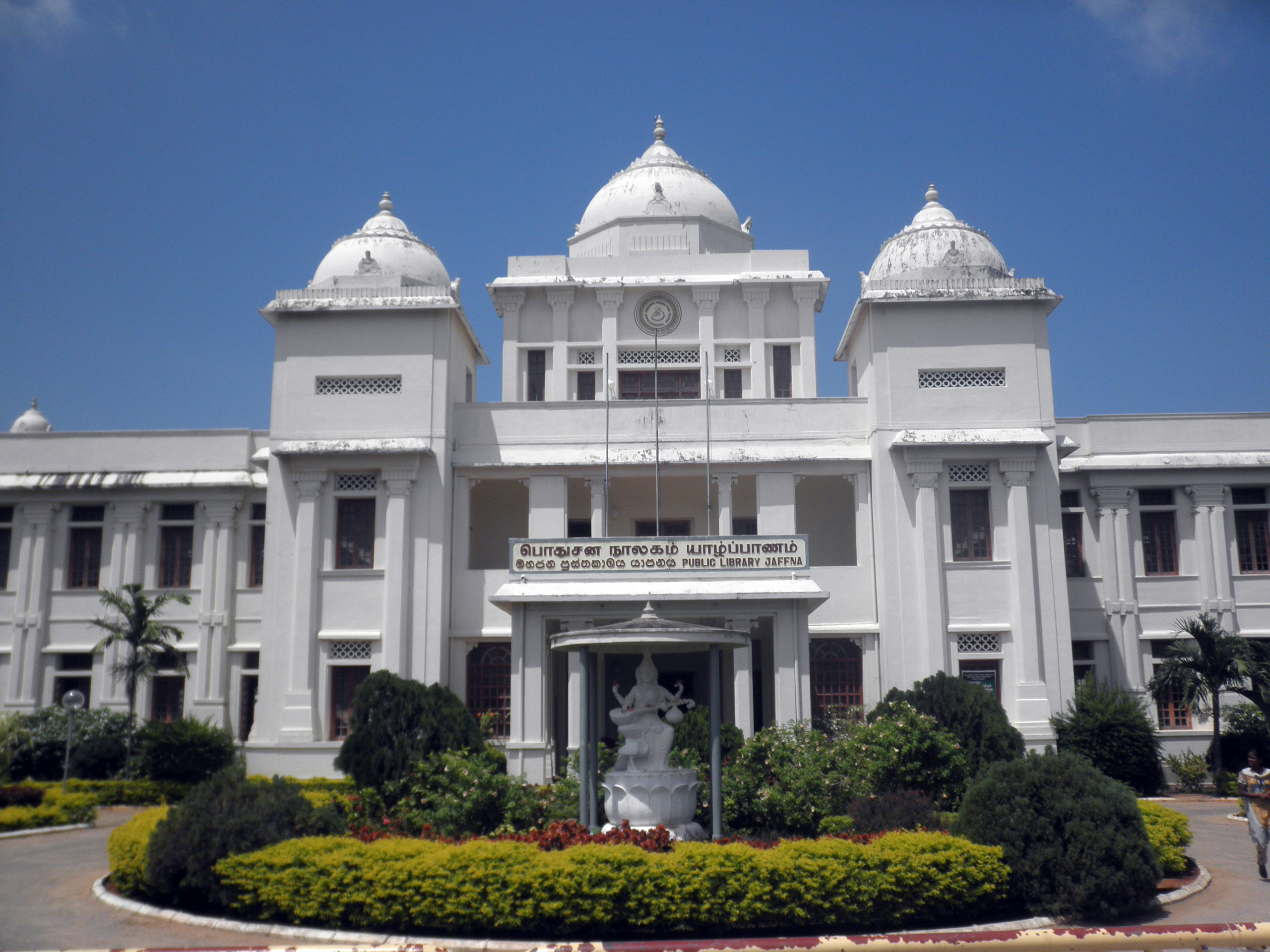 Jaffna Public Library